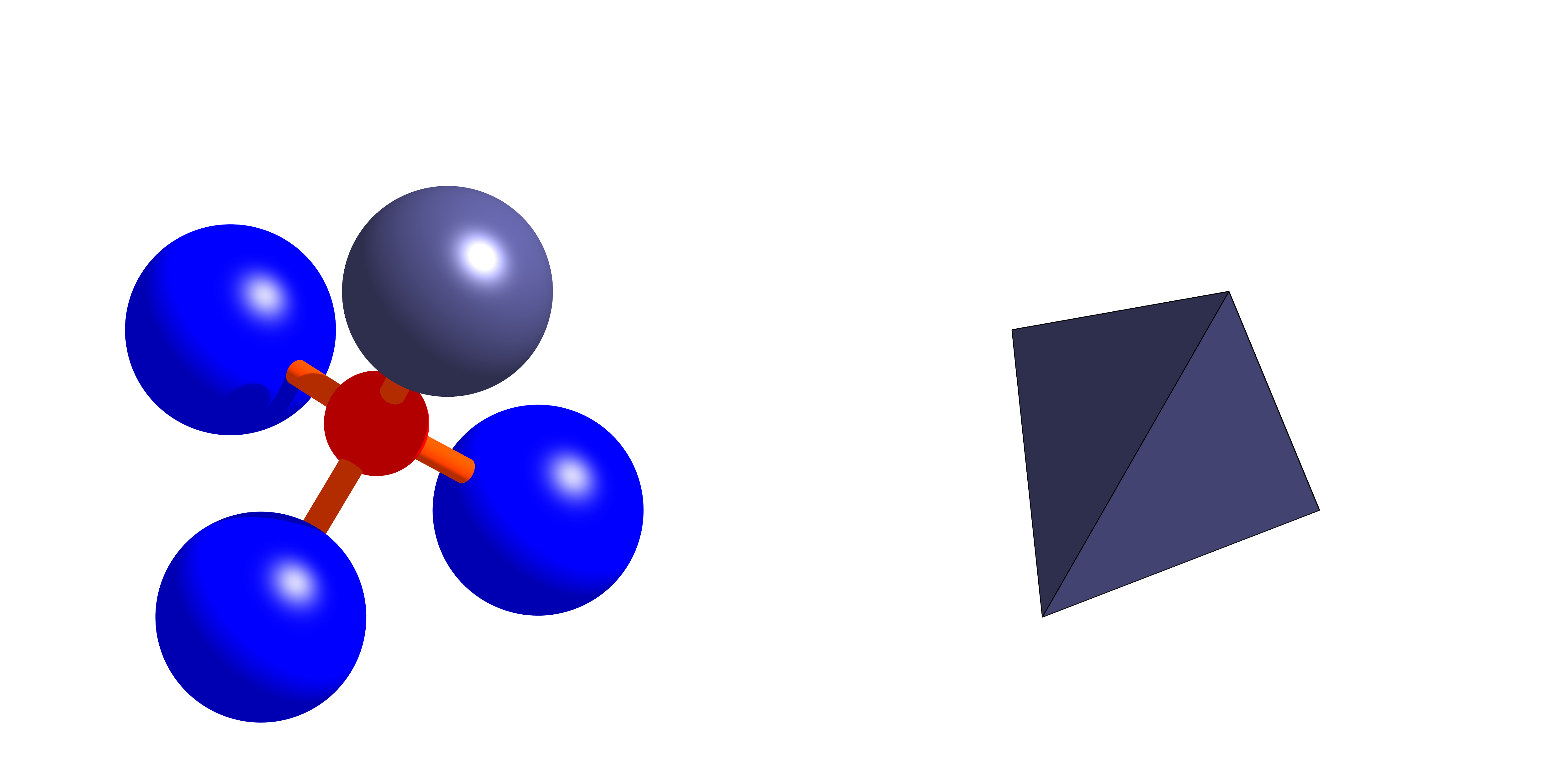 Mayenit structure: Aluminium (red) in tetrahedral coordination with 4 oxygens (blue: O1, violet; O2); Atoms lest and coordination polyhedra right Daten von: Tomoyuki Iwata, Masahide Haniuda, Koichiro Fukuda (2008): Crystal structure of Ca12Al14O32Cl2 and luminescence properties of Ca12Al14O32Cl2:Eu2+, Journal of Solid State Chemistry 181, pp. 51-55 Calculation of scene file: Larry W. Finger, Martin Kroeker, and Brian H. Toby, DRAWxtl, an open-source computer program to produce crystal-structure drawings, J. Applied Crystallography V40, pp. 188-192, 2007 Rendering: POVRAY